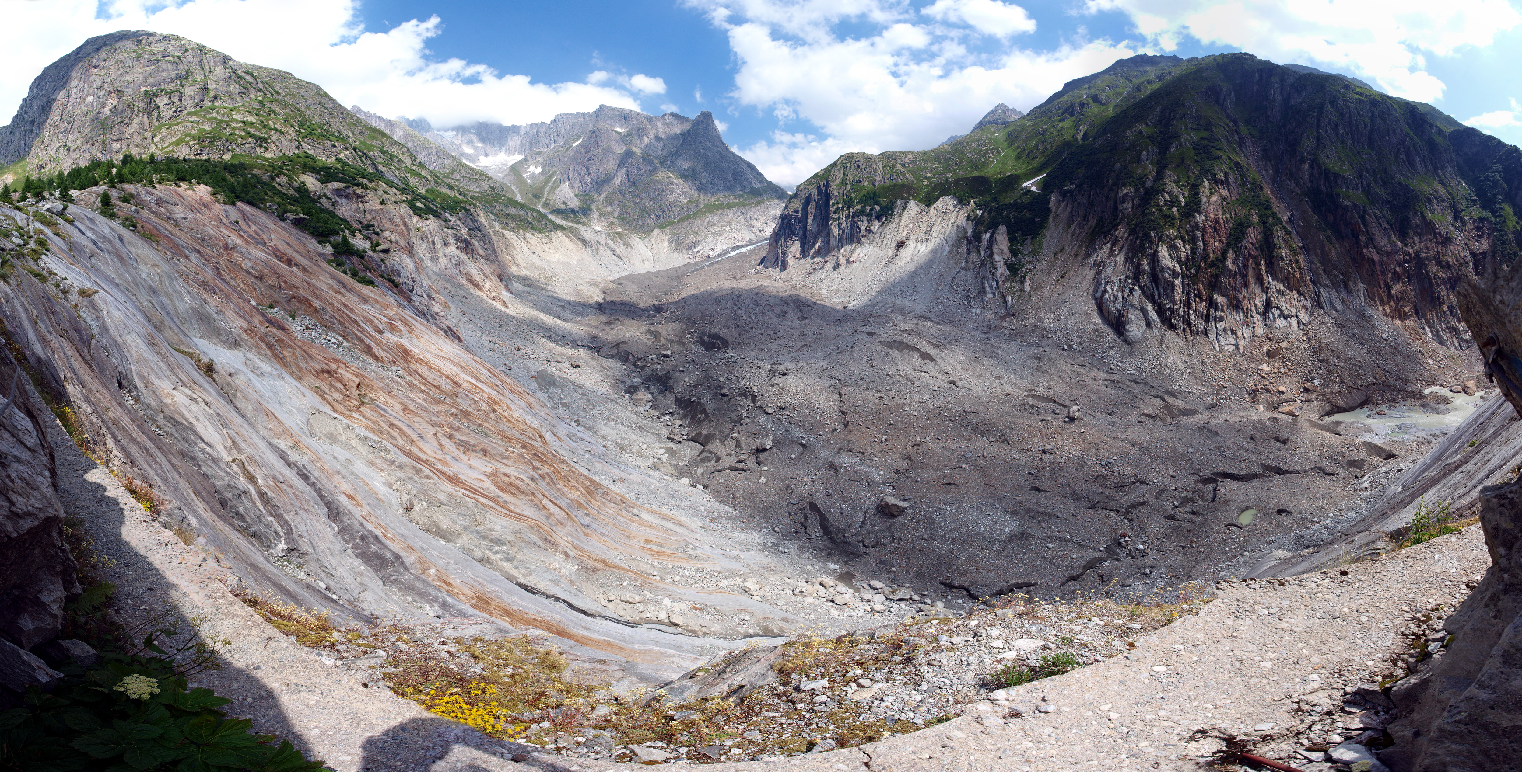 The tongue of the Fiescher Glacier in the Bernese Alps, canton of Valais. Made with Hugin, stitching 28 single pictures.